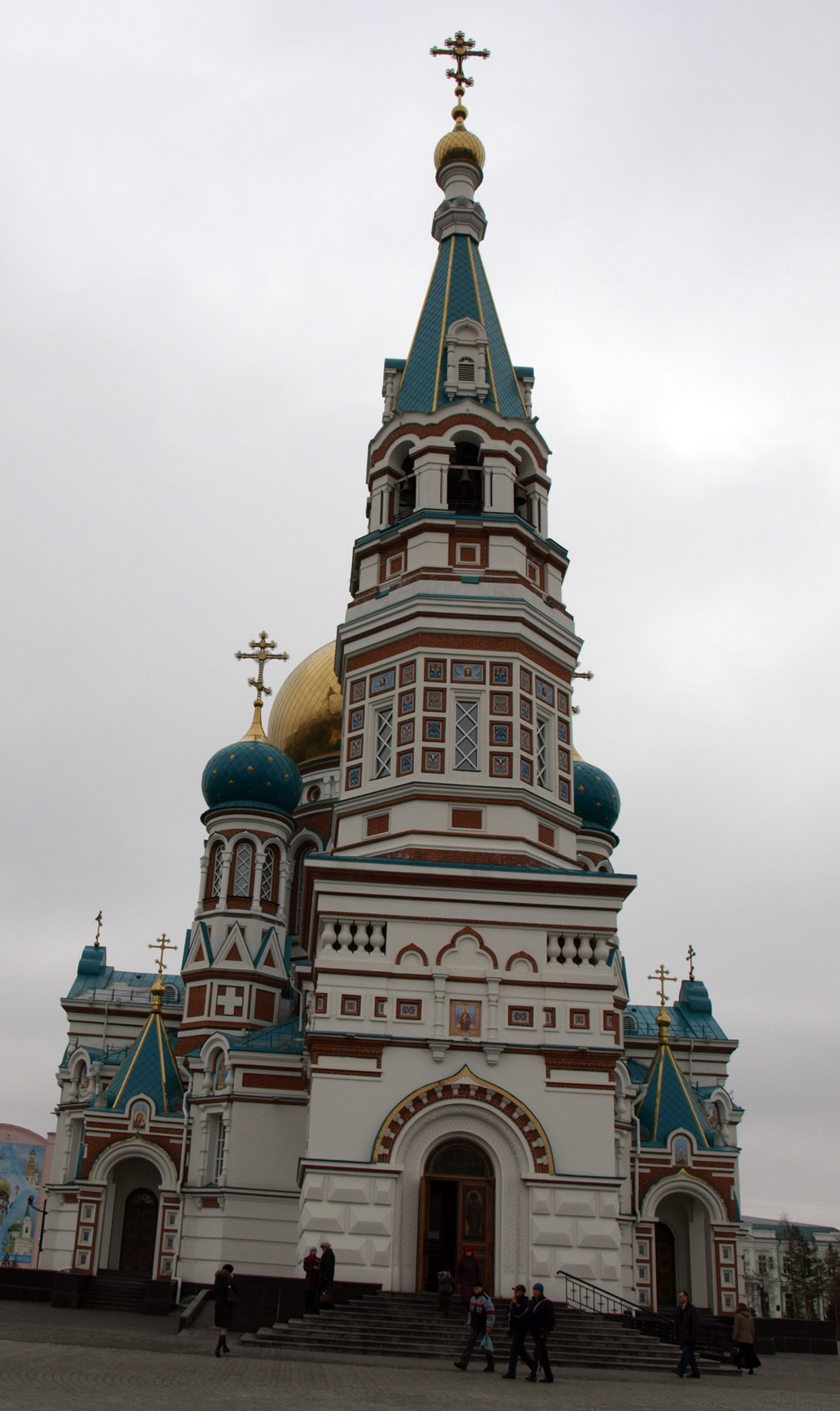 Dormition cathedral in Omsk